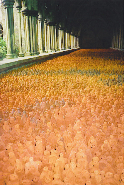 Field for the British Isles at Salisbury Cathedral. Antony Gormley's controversial clay sculptured figurines in the cloisters.